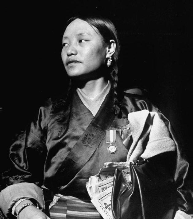 The copyright has expired! in 1946